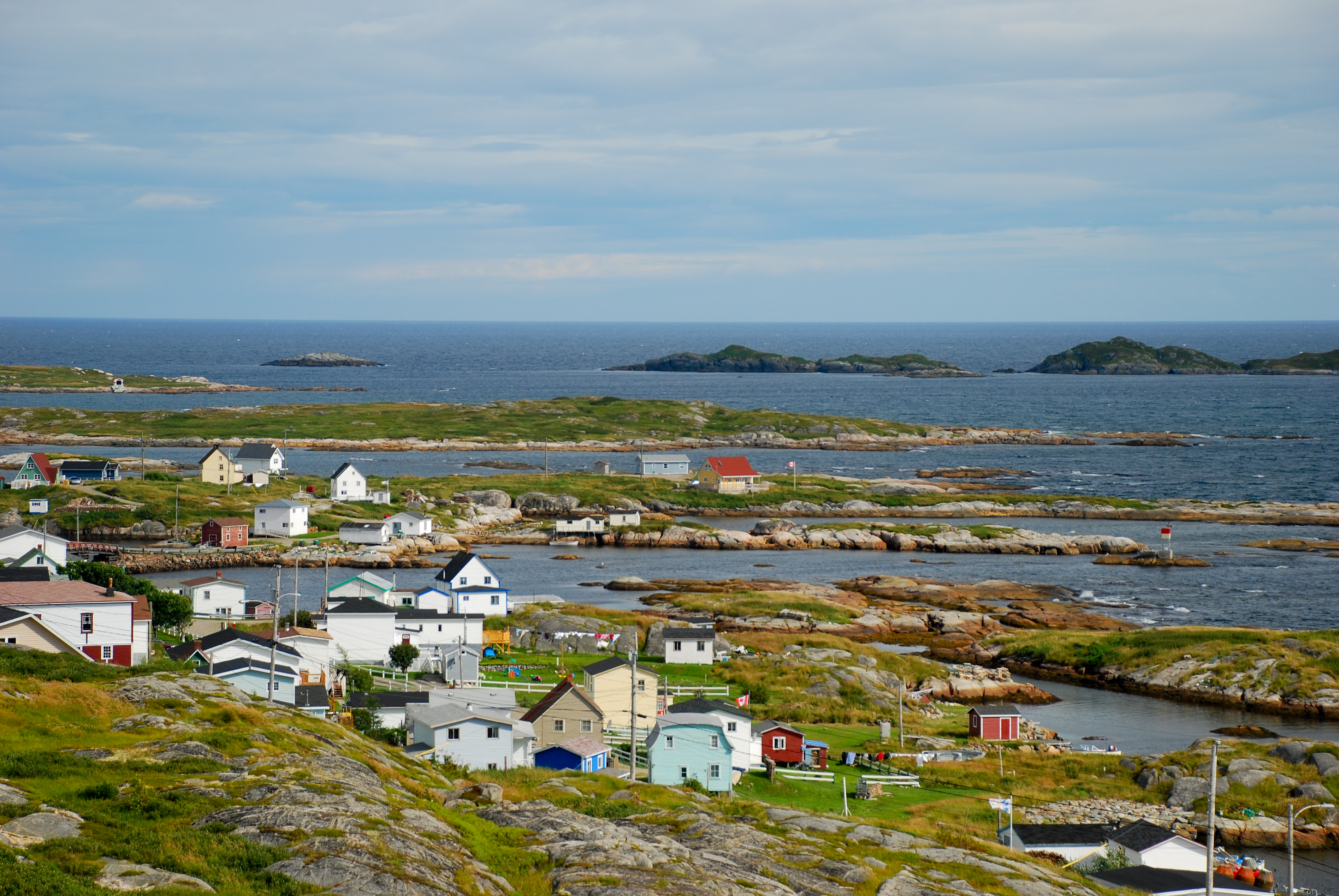 Photo from a lookout over Greenspond, an island town in the Bonavista North region of Newfoundland, in the Canadian province of Newfoundland & Labrador